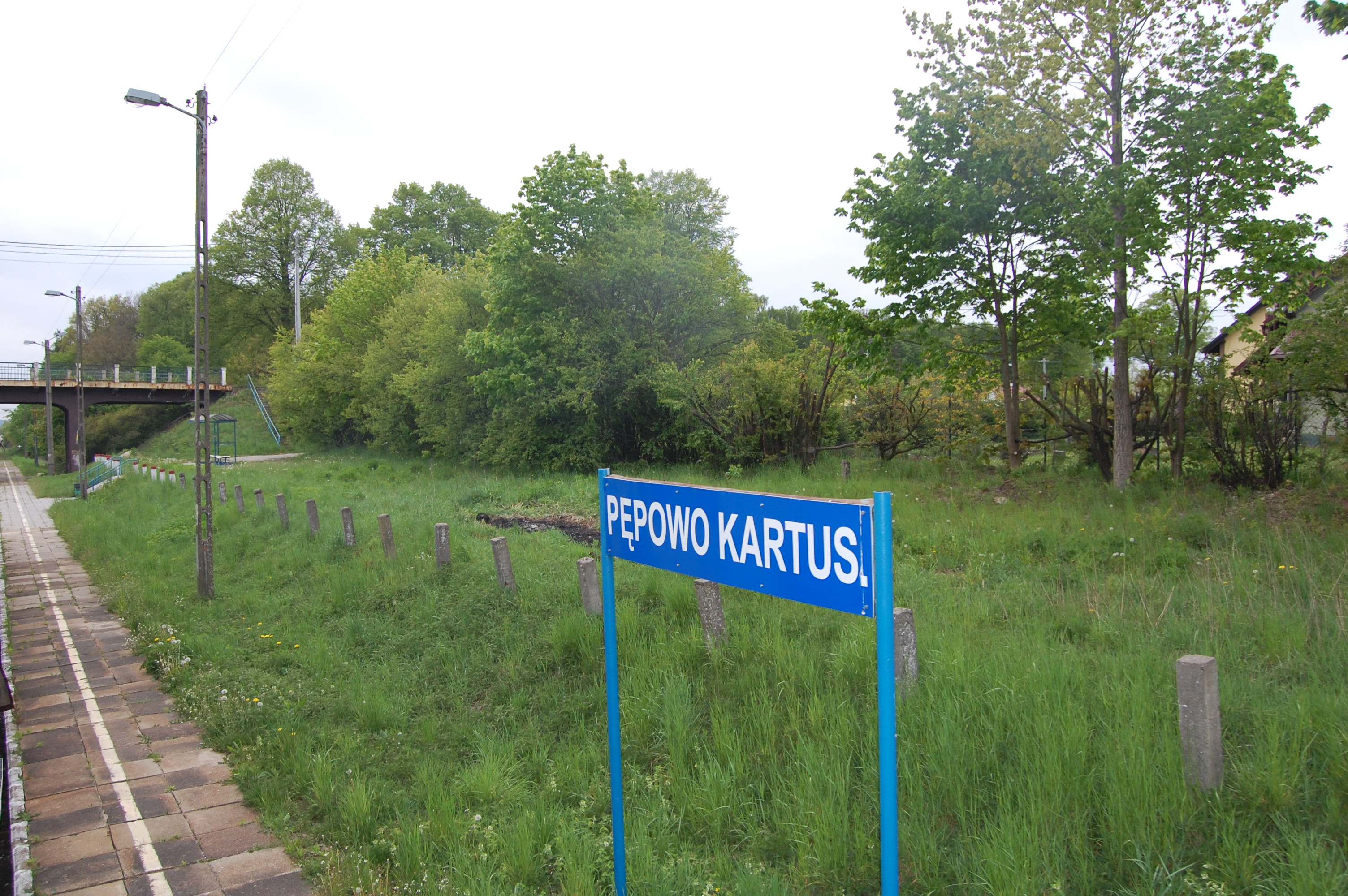 Train station Pępowo Kartuskie